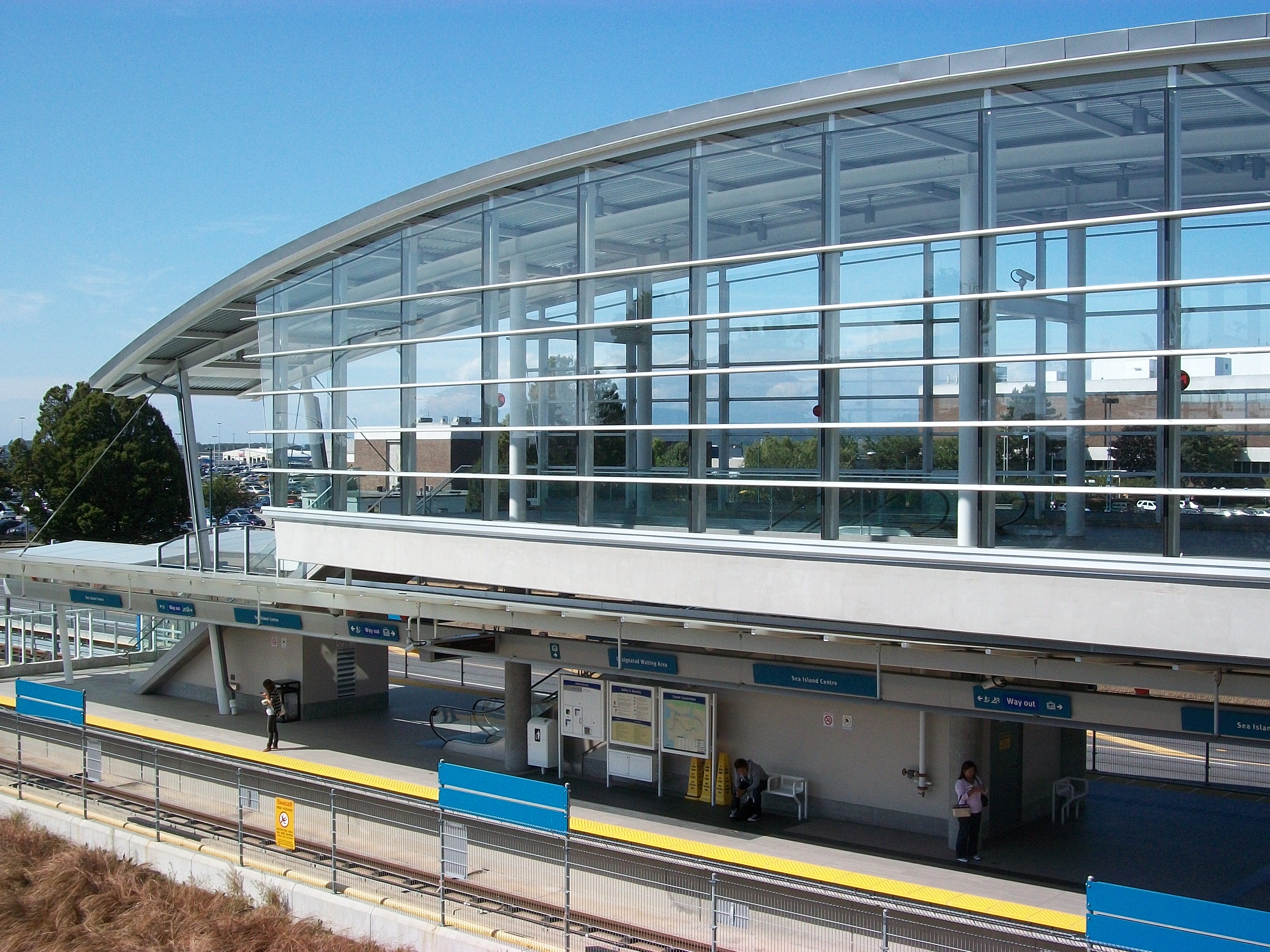 Sea Island Centre Station